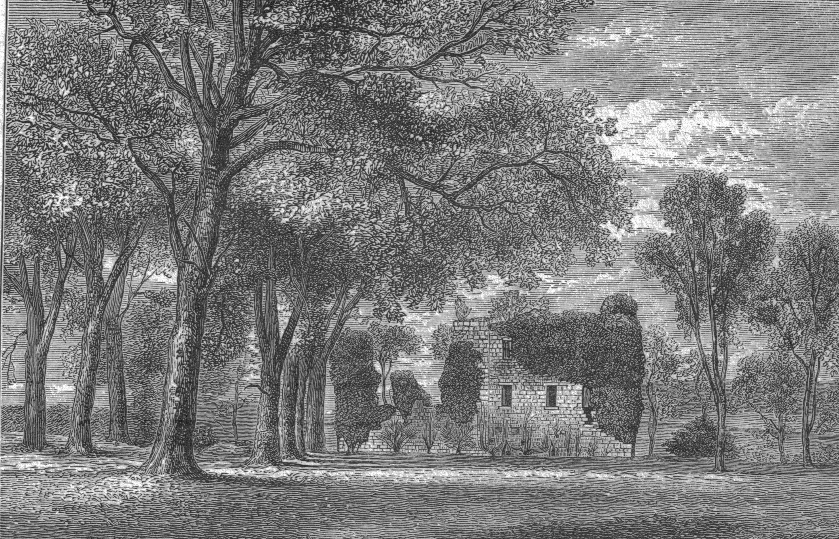 Hessilhead (Hasil head)Castle, North Ayrshire, Scotland. 1876. Rosser 11:11, 2 September 2007 (UTC) From Pont's Cunninghame by J.B and .S. Dobie . 1876. P. 144.